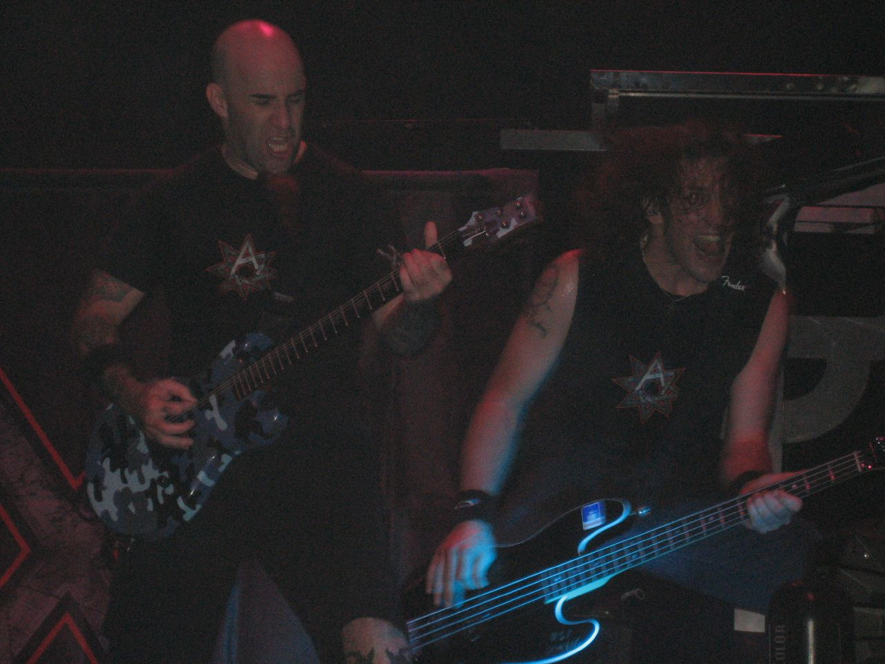 Frank Bello & Scott Ian performing with Anthrax in the Judas Priest Retribution 2005 Tour